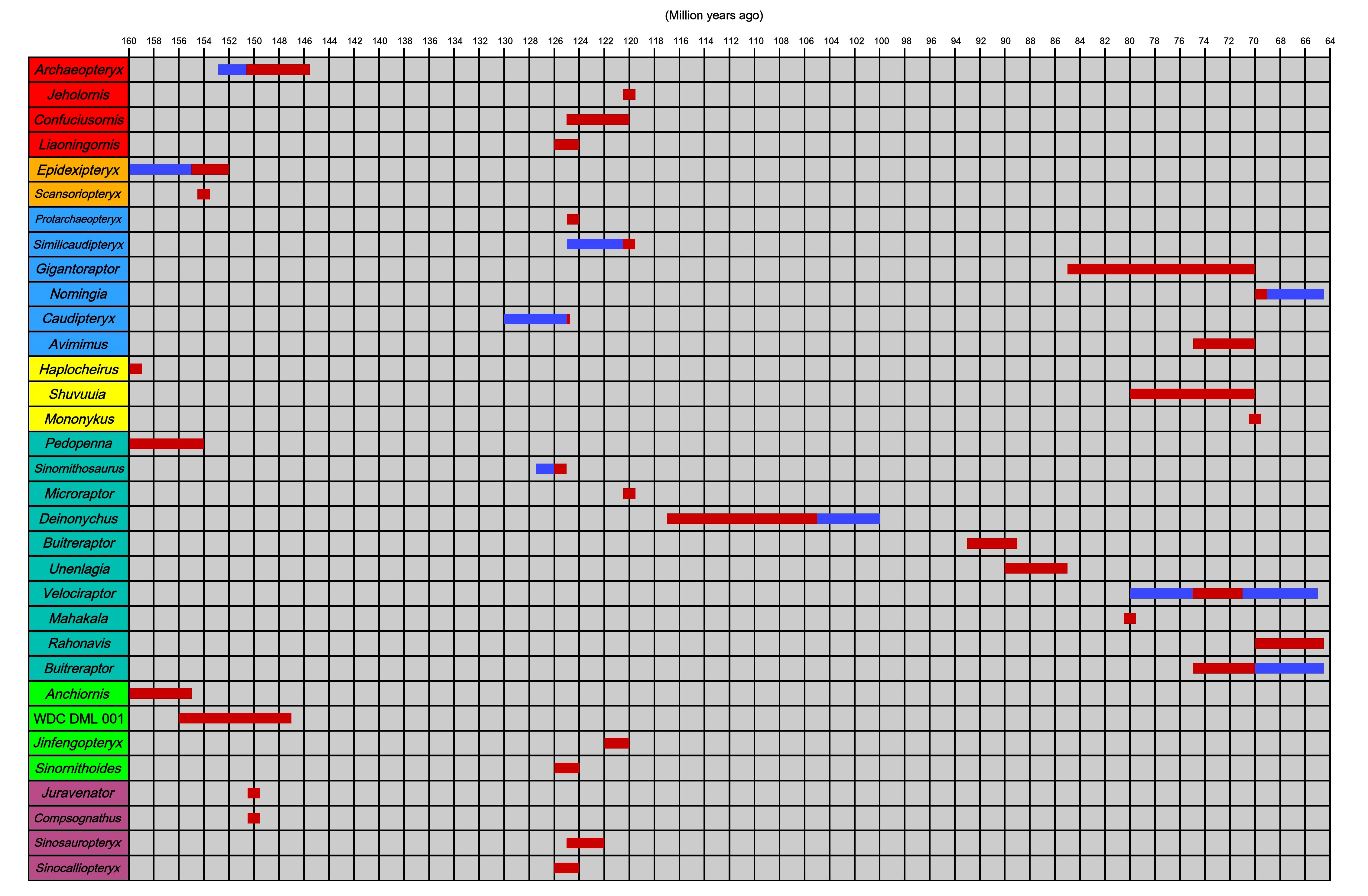 Diagram illustrating the "Temporal paradox" in paleontology. First given it's nickname by Alan Feduccia, the paradox is made up by the fact that almost all feathered dinosaurs are dated to have lived millions of years after Archaeopteryx, the oldest bird (late Jurassic, believed to have existed about 150 million years ago). Only a few of the feathered dinosaurs/birdlike dinosaurs are given an older date than Archaeopteryx.